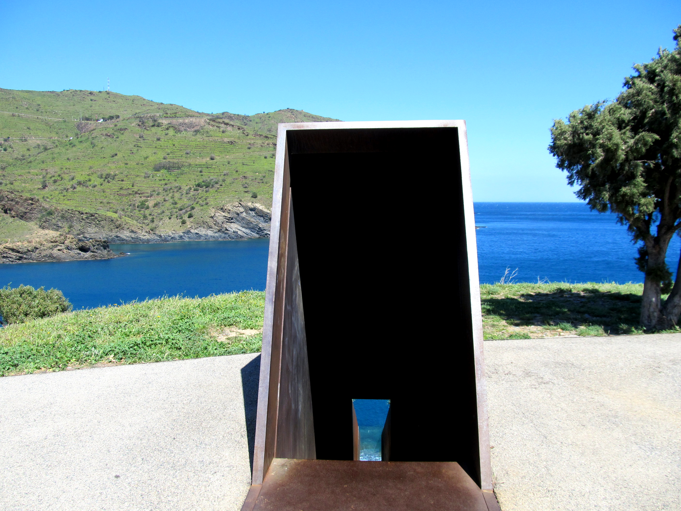 Walter Benjamin Memorial